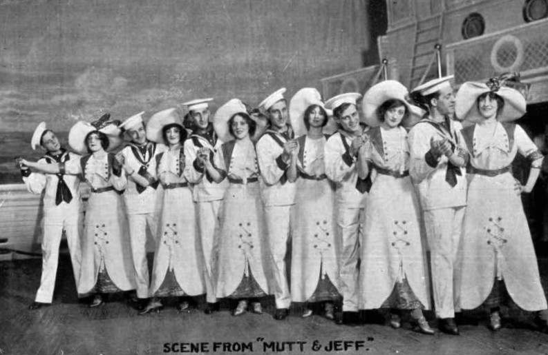 Photo postcard of a scene from the 1912 stage production of the comedy show Mutt and Jeff, which was derived from the comic strip.